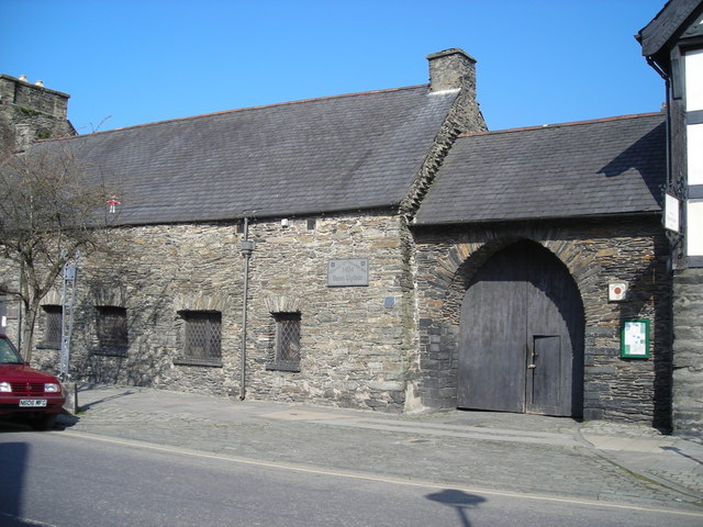 Owain Glyndwr's parliament, near to Machynlleth, Powys, Great Britain. Owain Glyndwr ,the last Welsh Prince of Wales' parliament building in Machynlleth.